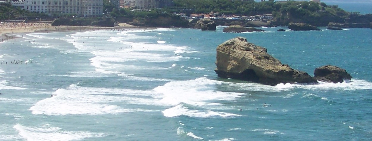 Landscape of city of Biarritz and the Atlantic Ocean, in Pyrénées-Atlantiques, France.